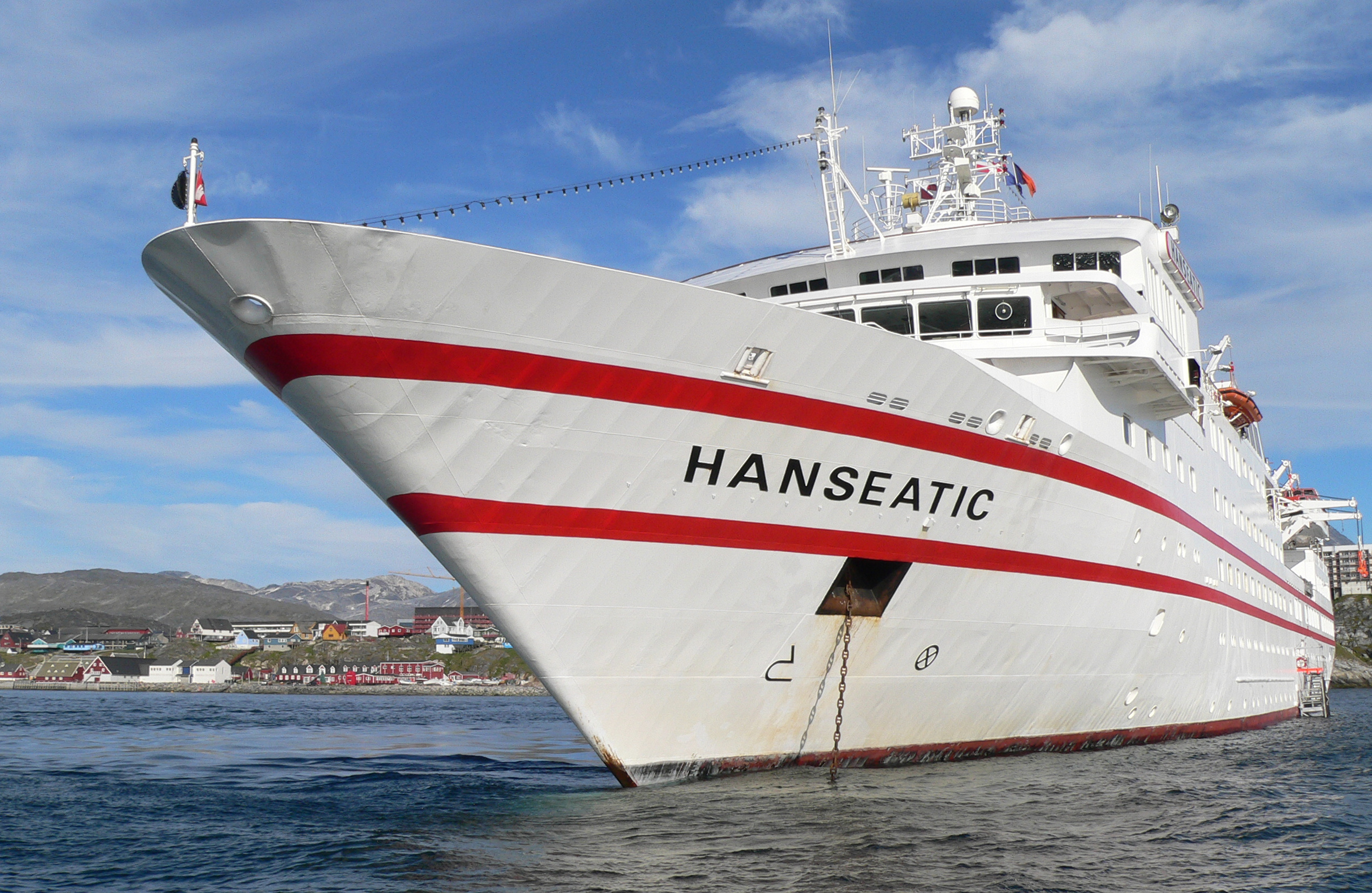 Hanseatic in front of Nuuk (Greenland)